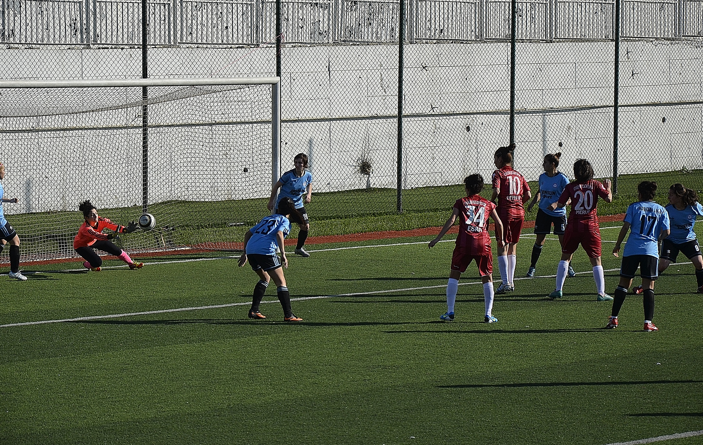 Ataşehir Belediyespor vs MarmaraÜniversitesi Spor on January 19, 2014